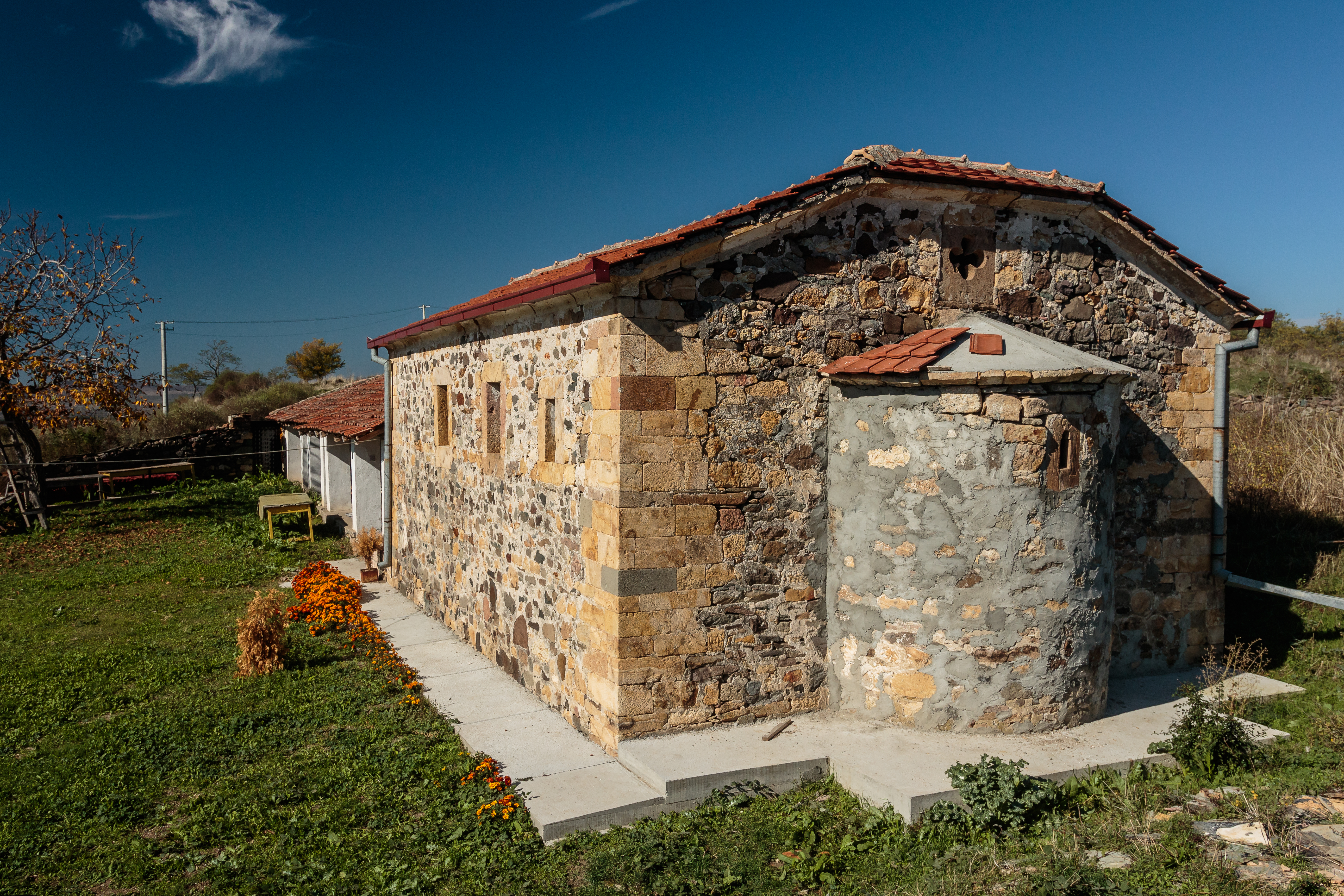 St. Elijah Church in the village of Buneš, Zletovo-Probištip Region, Macedonia